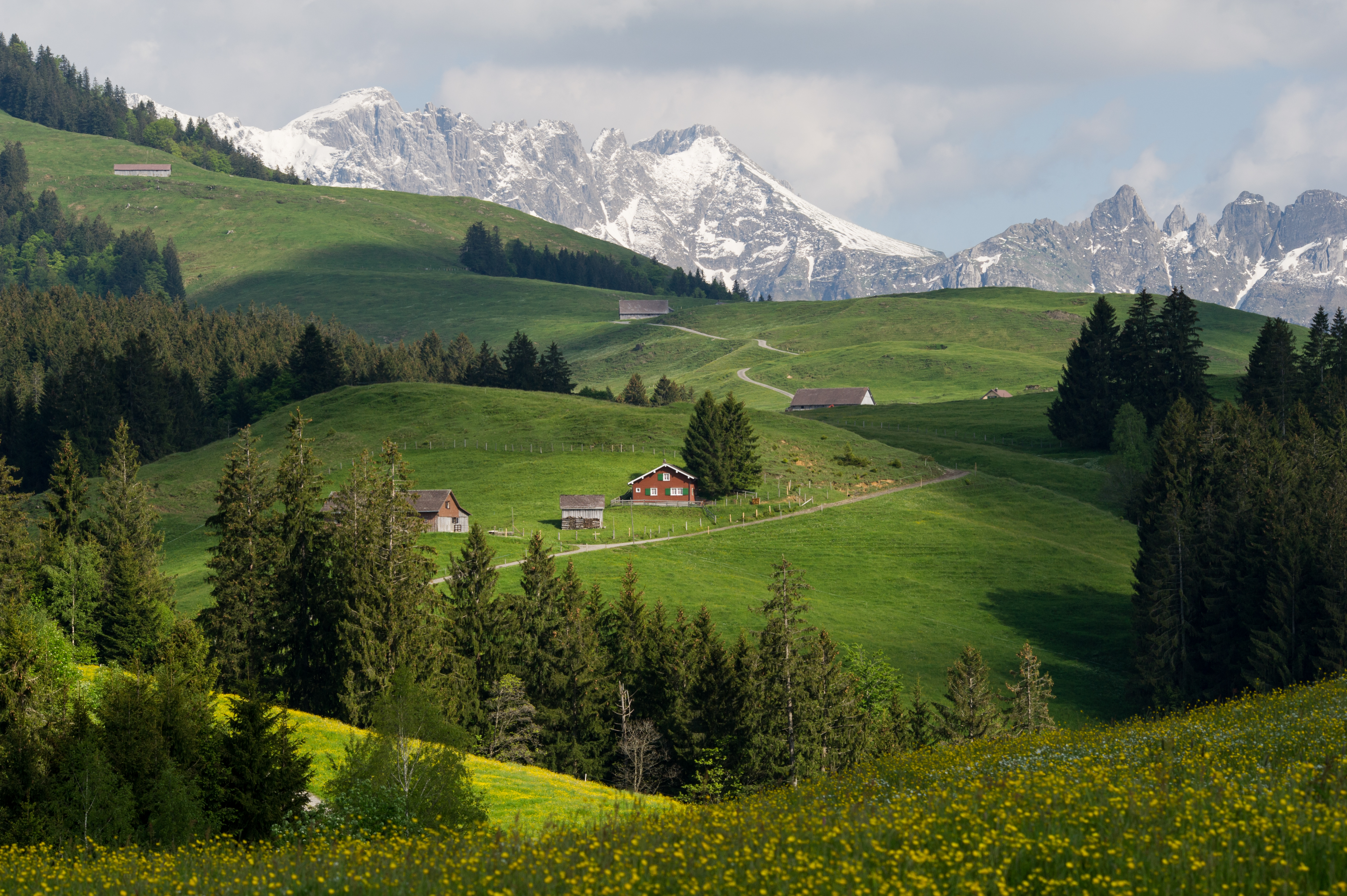 On the edge of the Naturpark Neckertal runs a hiking route from Bächli (854 m) to Hochalp (1529 m).